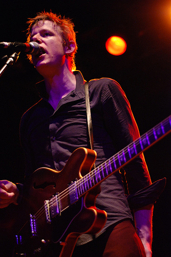 Britt Daniel w/ Spoon at the Bowery Ballroom in New York on April 23, 2007.